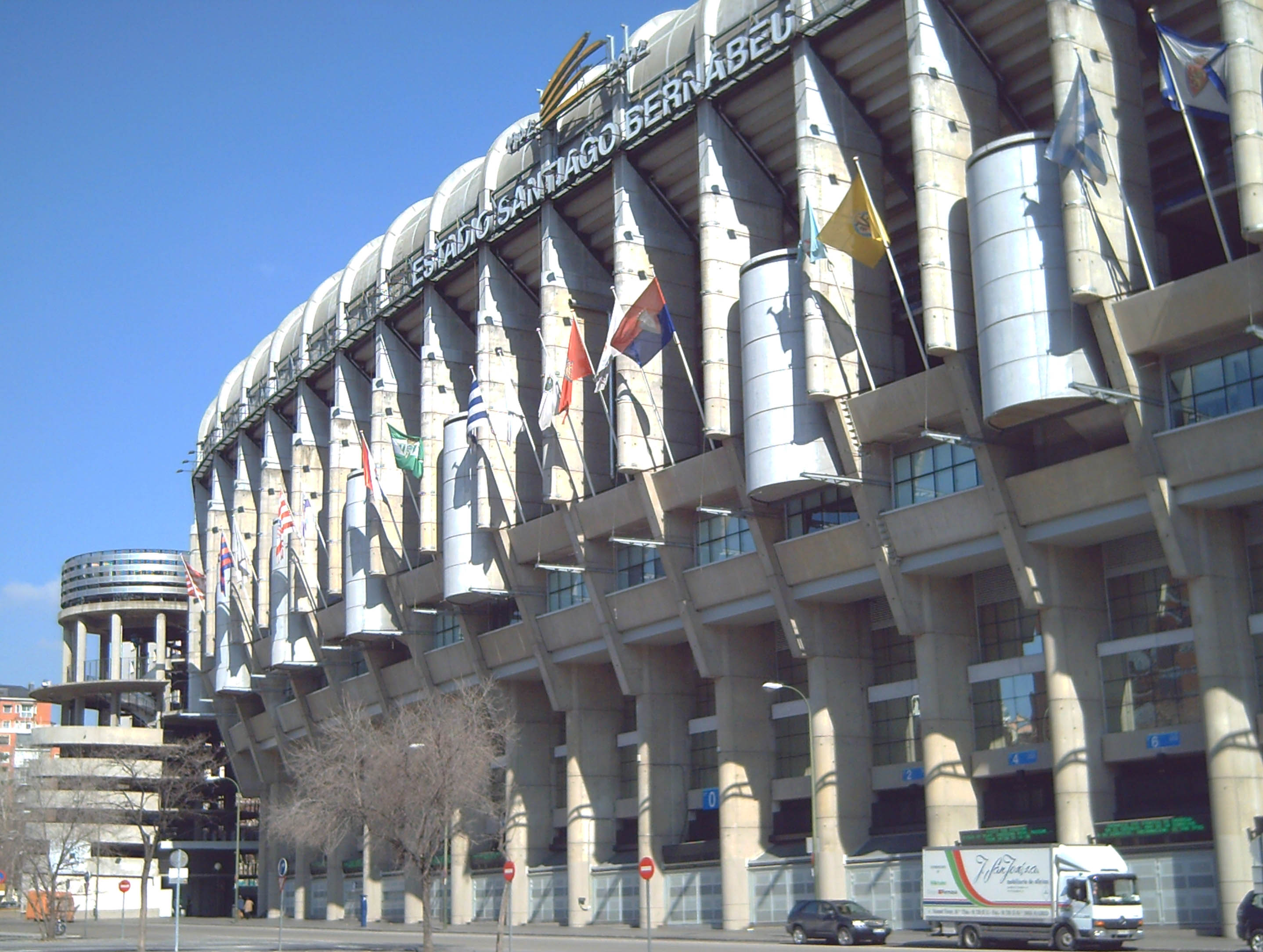 West façade of the Santiago Bernabéu Stadium (Madrid, Spain, 1945–47; extension 1992–94). Architects: Manuel Muñoz Monasterio and Luis Alemany Soler; extension by Antonio Lamela Martínez.